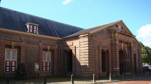 Citygate of Grave, Hampoort